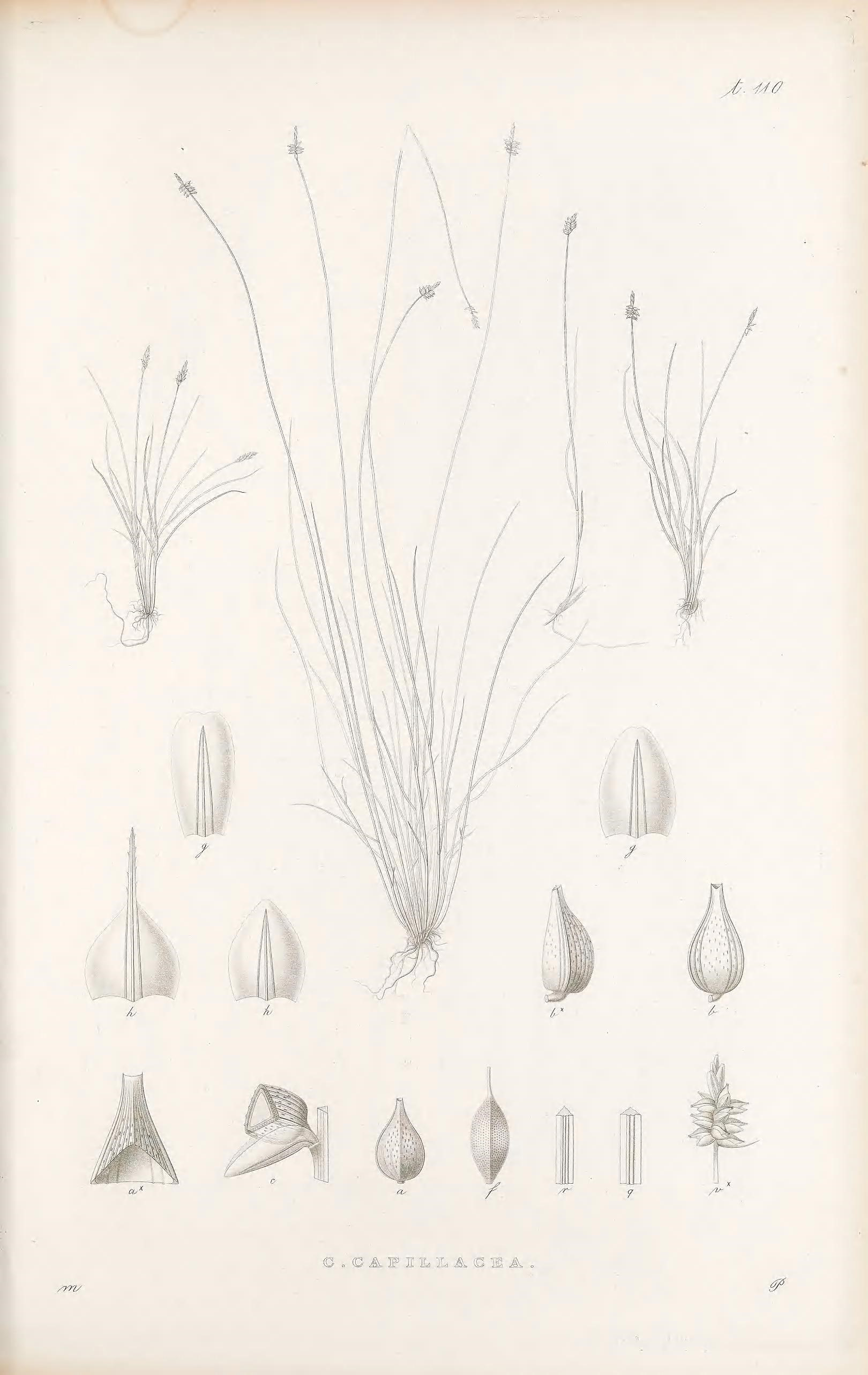 Illustrations of the genus Carex London :William Pamplin,1858-1867.